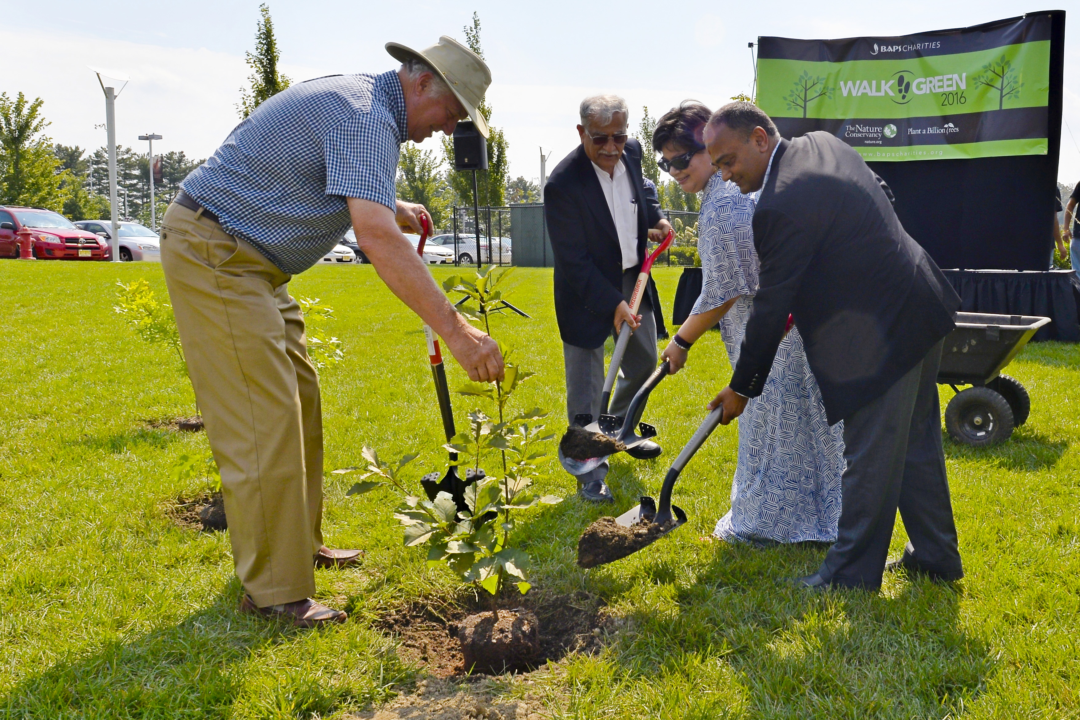 BAPS Charities WalkGreen